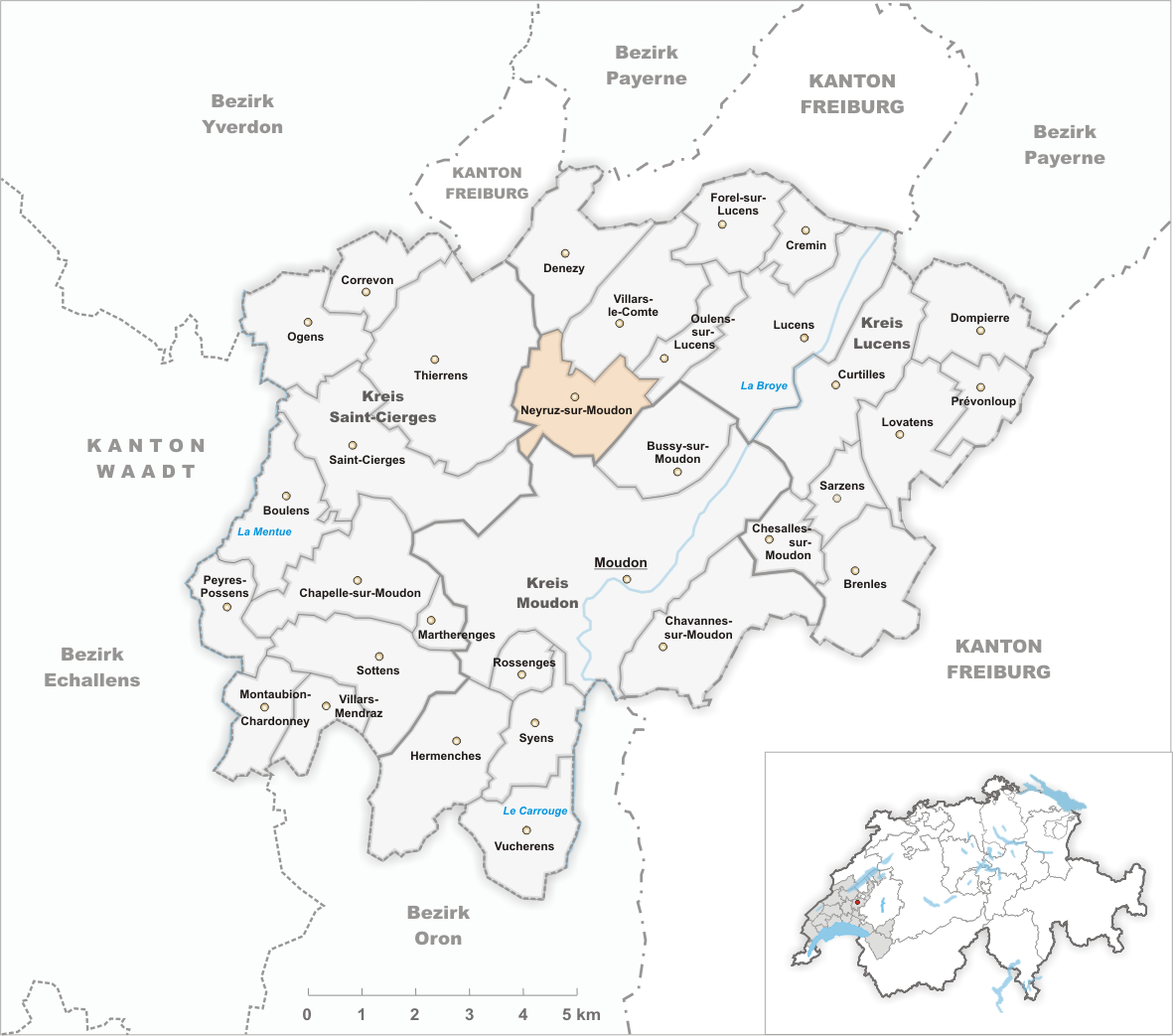 Municipality Neyruz-sur-Moudon